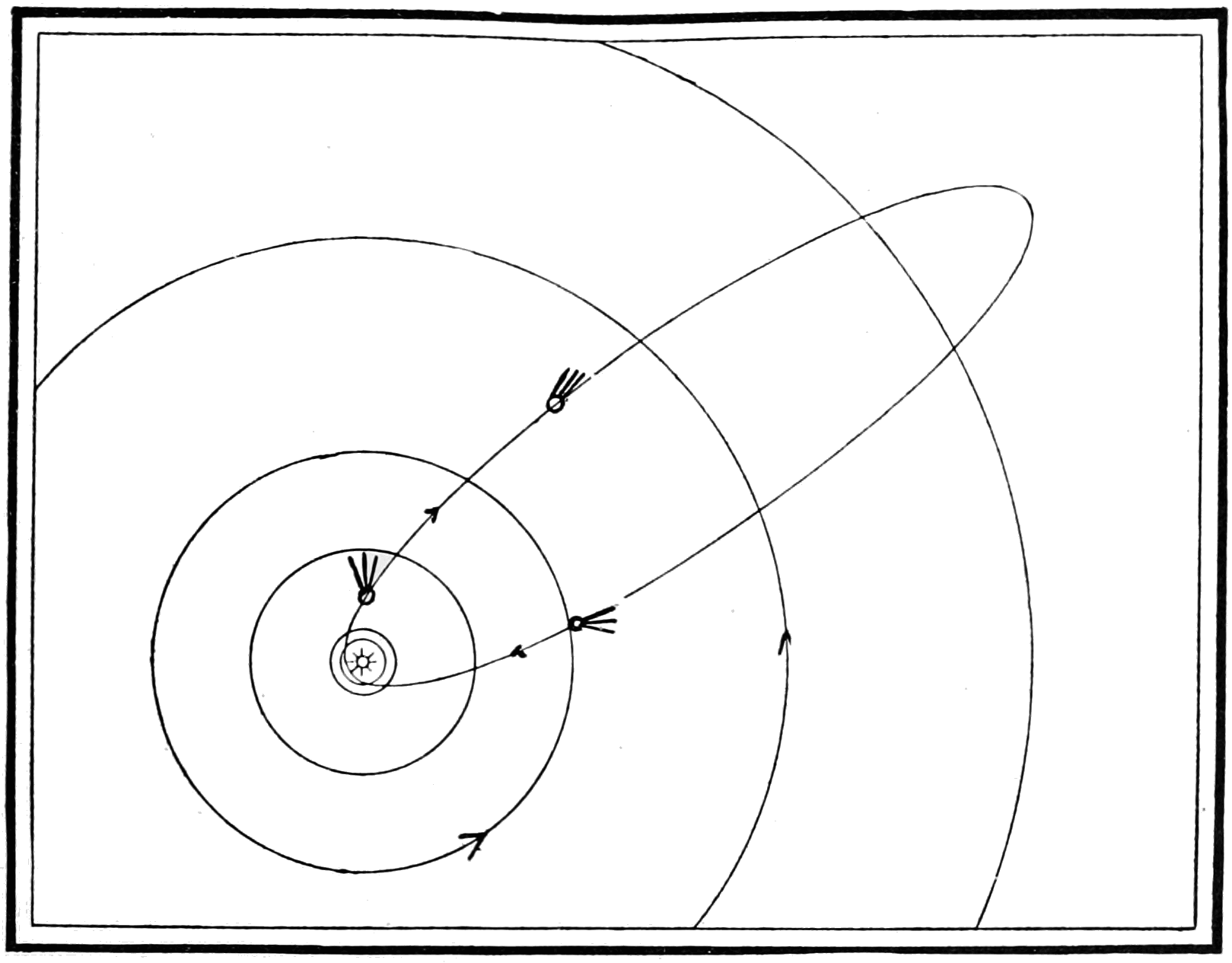 Orbit of the planets and halley comet